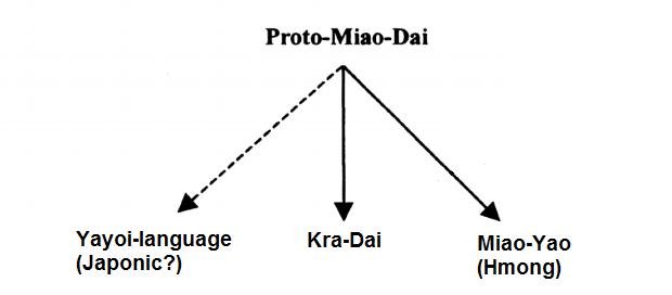 Language tree of the proposed Miao-Dai family (includes Kra-Dai languages, Miao-Yao languages(Hmong) and possibly the Yayoi language (ancestor of Japonic or creol member) (Based on the works of Kosaka and Vovin)